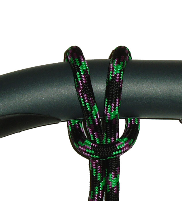 Cow hitch